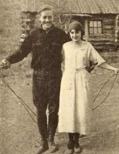 Leonard Clapham later known as Tom London and Virginia Brown Faire, on page 112 of the August 14, 1920 Exhibitors Herald. London and Faire were in several western short films in 1920.